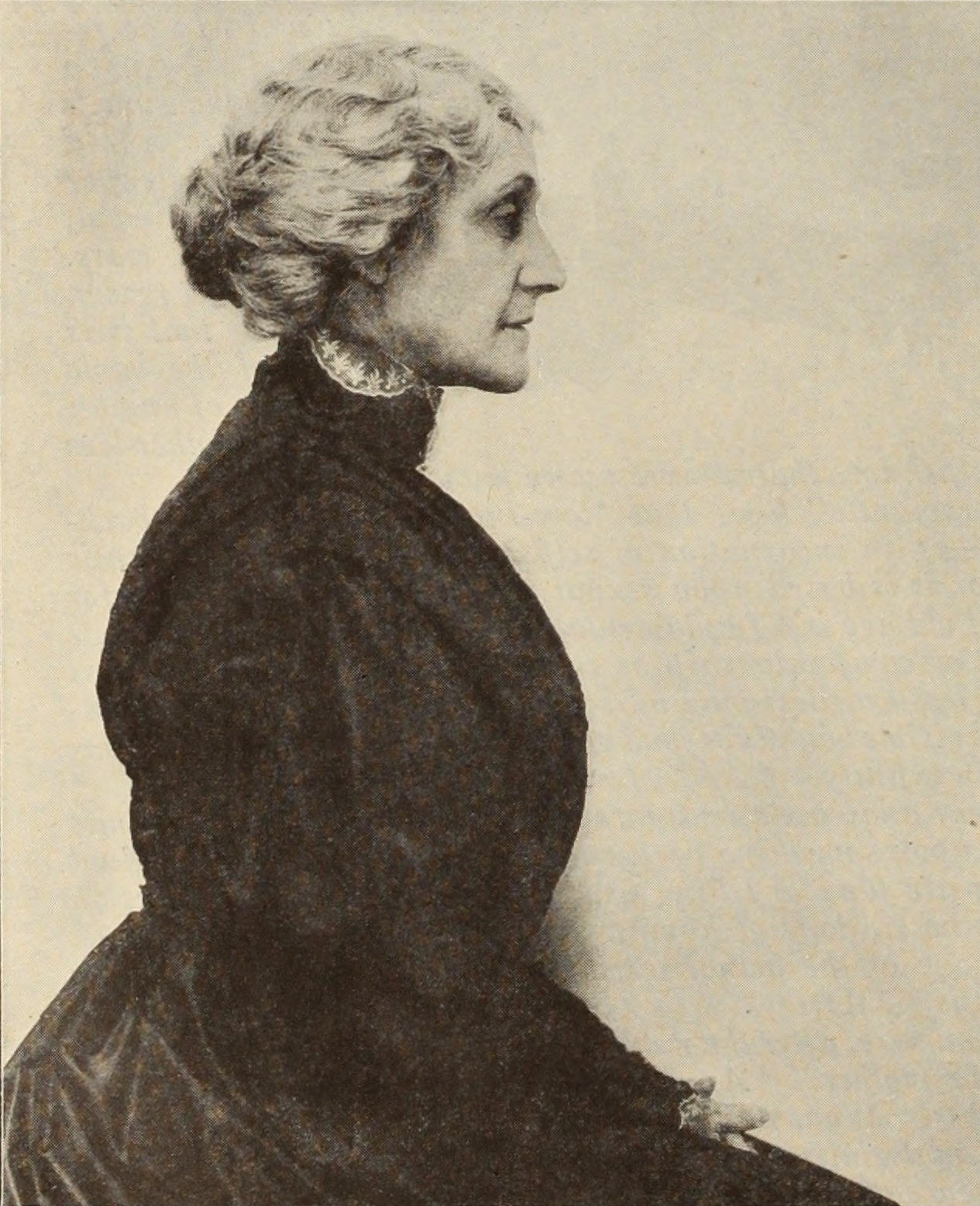 Kate Bruce, Photoplay Magazine, December 1921